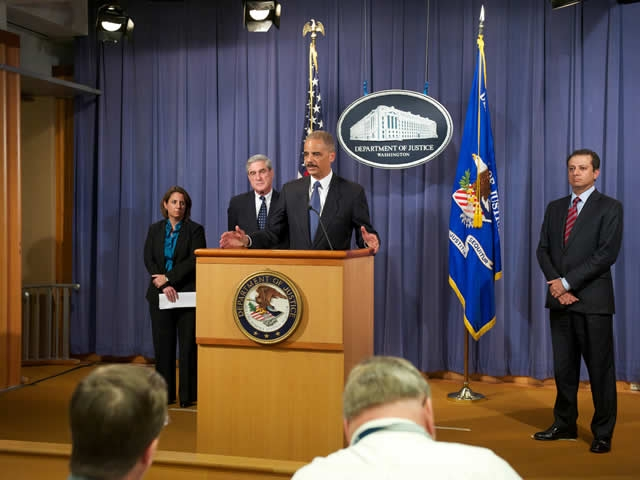 Attorney General Eric Holder announces charges related to a plot directed by elements of the Iranian government to murder the Saudi Ambassador to the United States